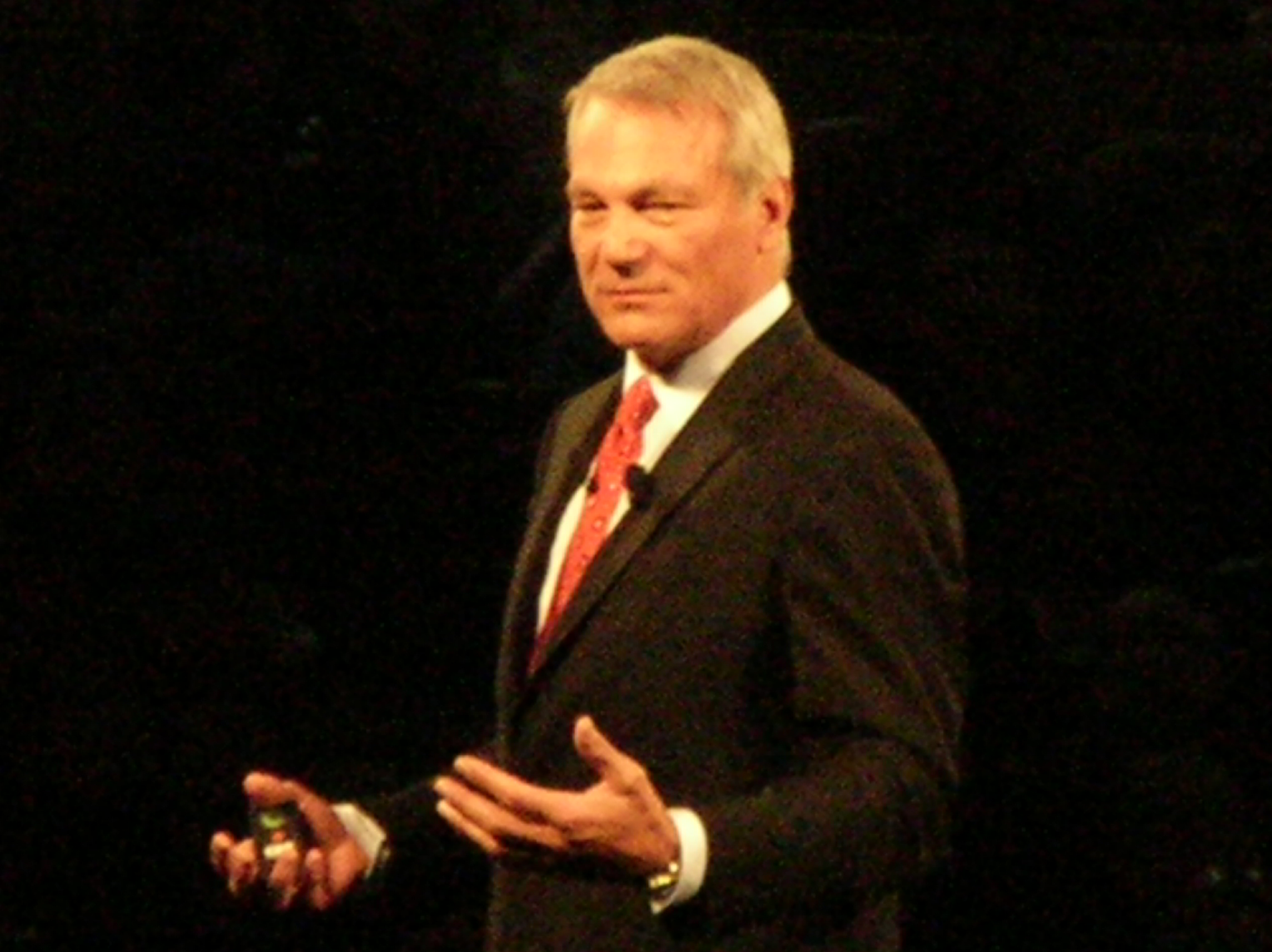 Phil Town speaking at the Get Motivated Seminar at the Cow Palace in Daly City, California.